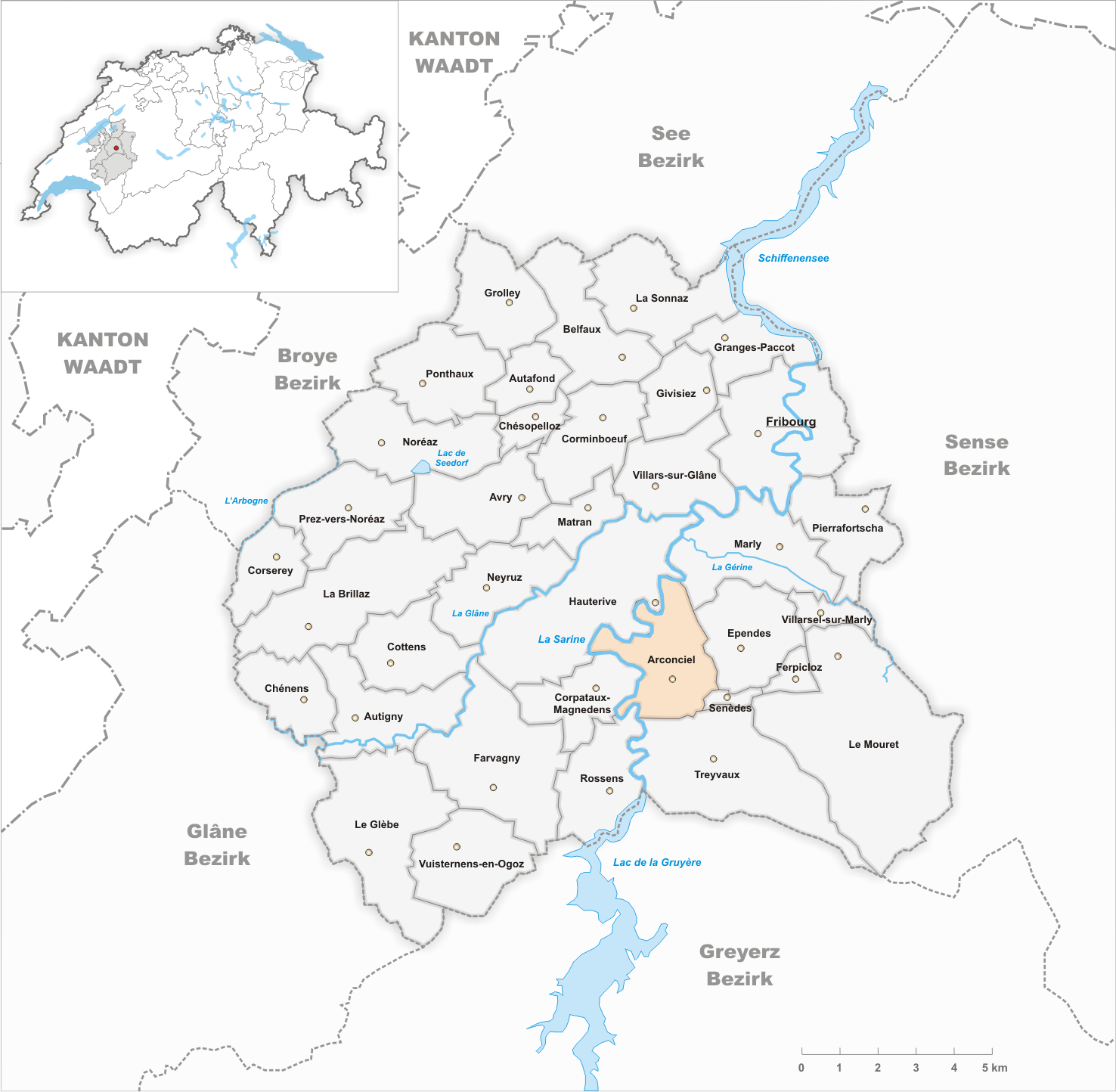 Municipality Arconciel